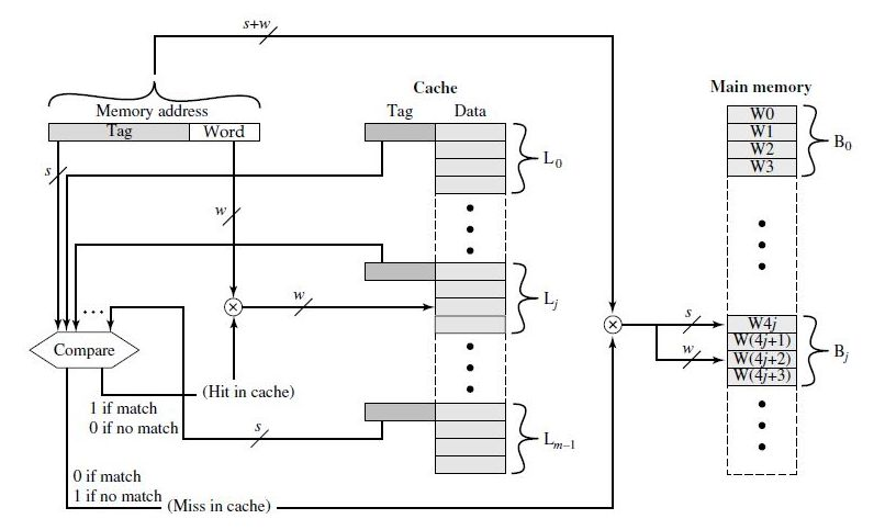 Associative mapping